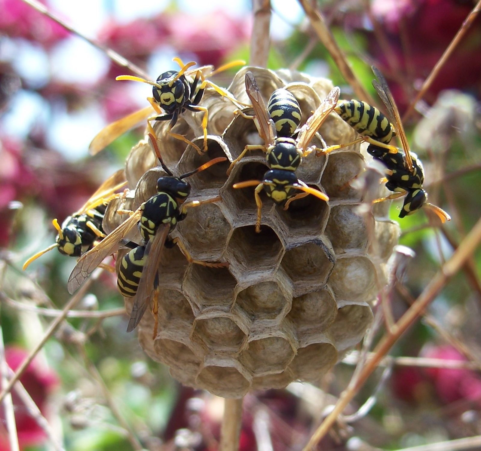 Nest of European Paper Wasp